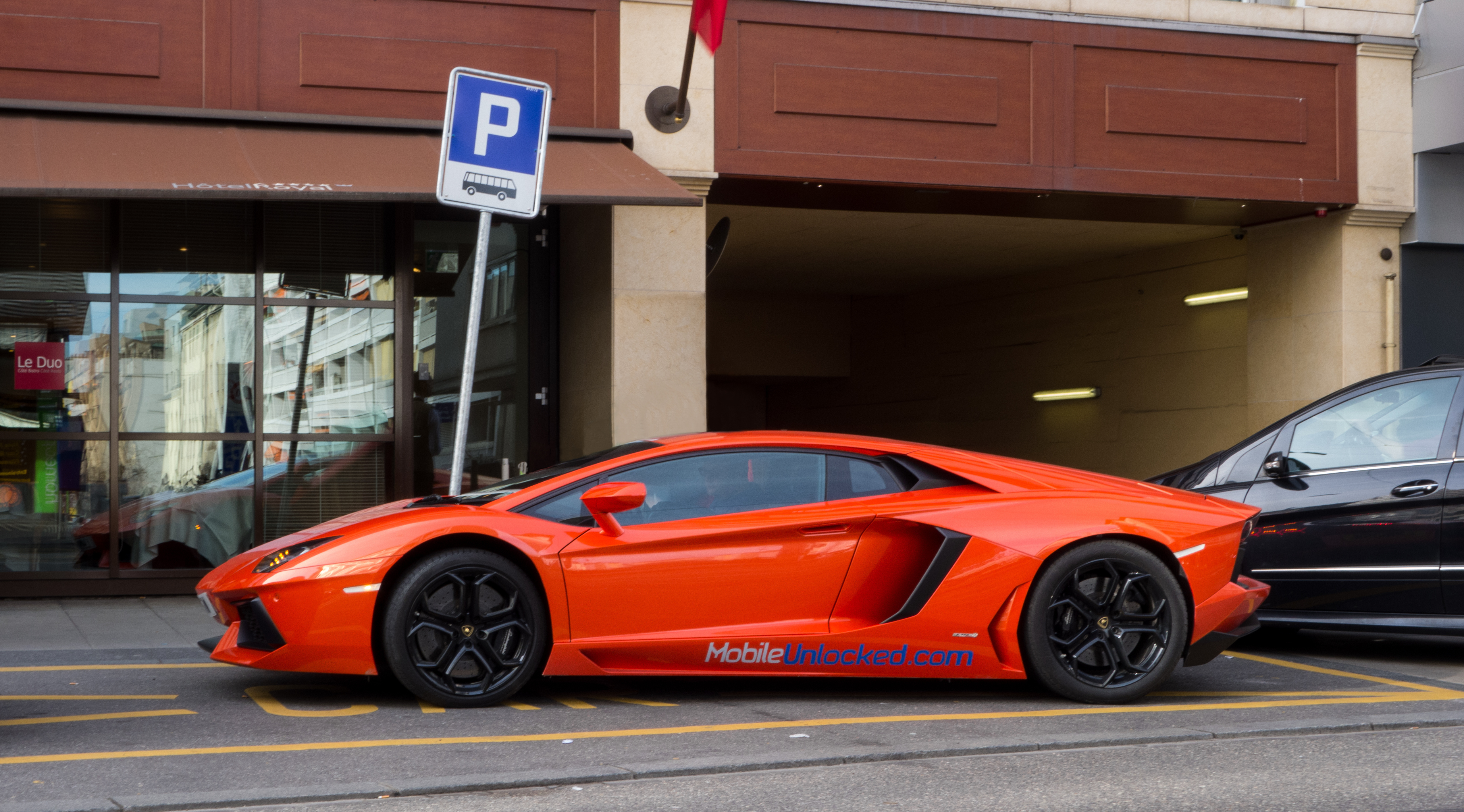 Lamborghini Aventador LP700-4 V12 700ch et 1575kg